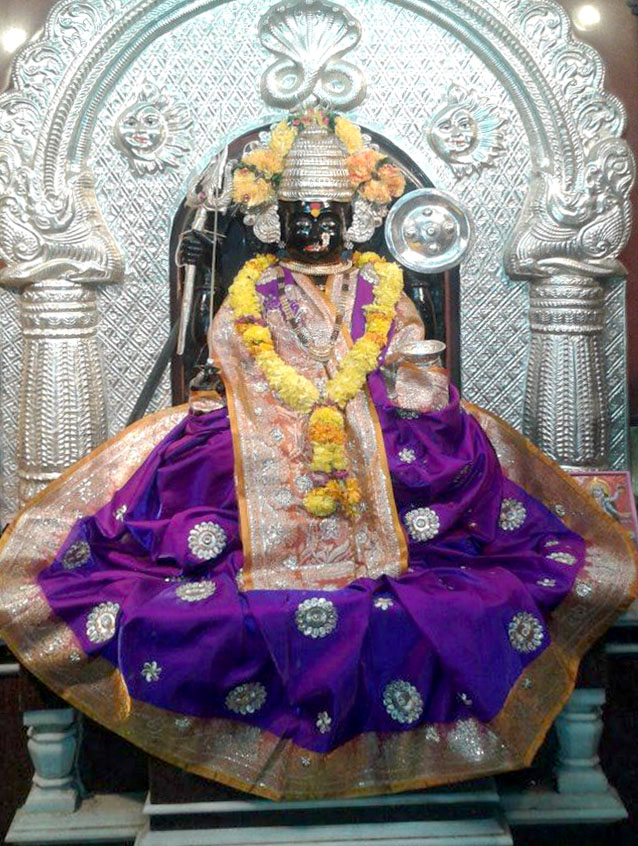 Idol at her temple in Pune, India